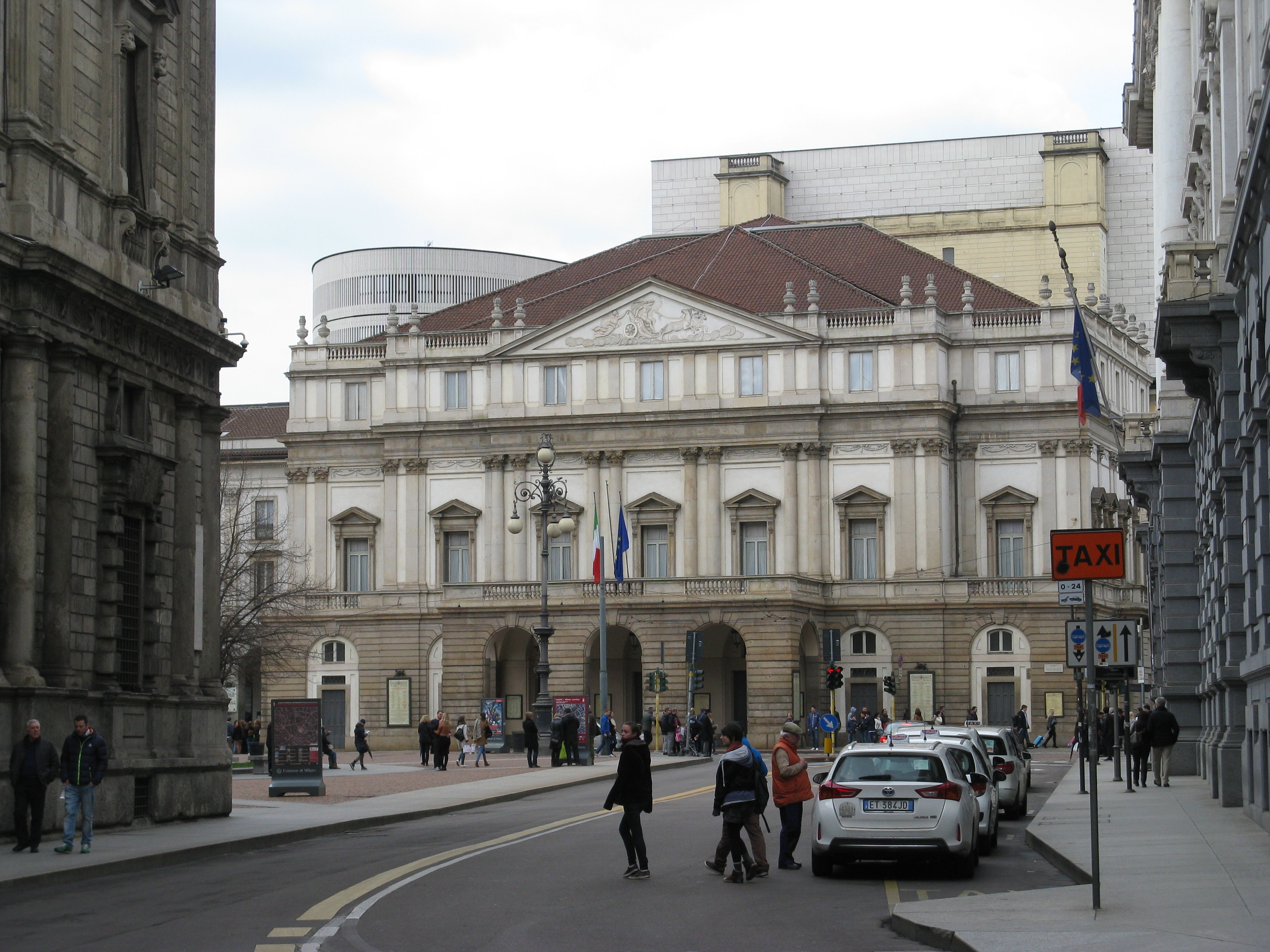 Teatro alla Scala.